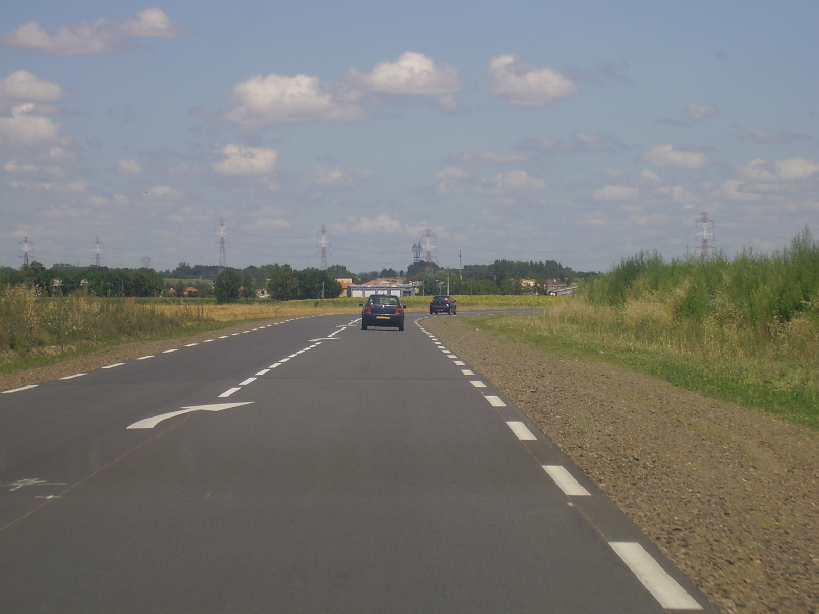 Departmental road 1093 near Les Martres-d'Artière (Puy-de-Dôme, Auvergne, France) towards Vichy (Allier, Auvergne, France). Section opened in 2009.